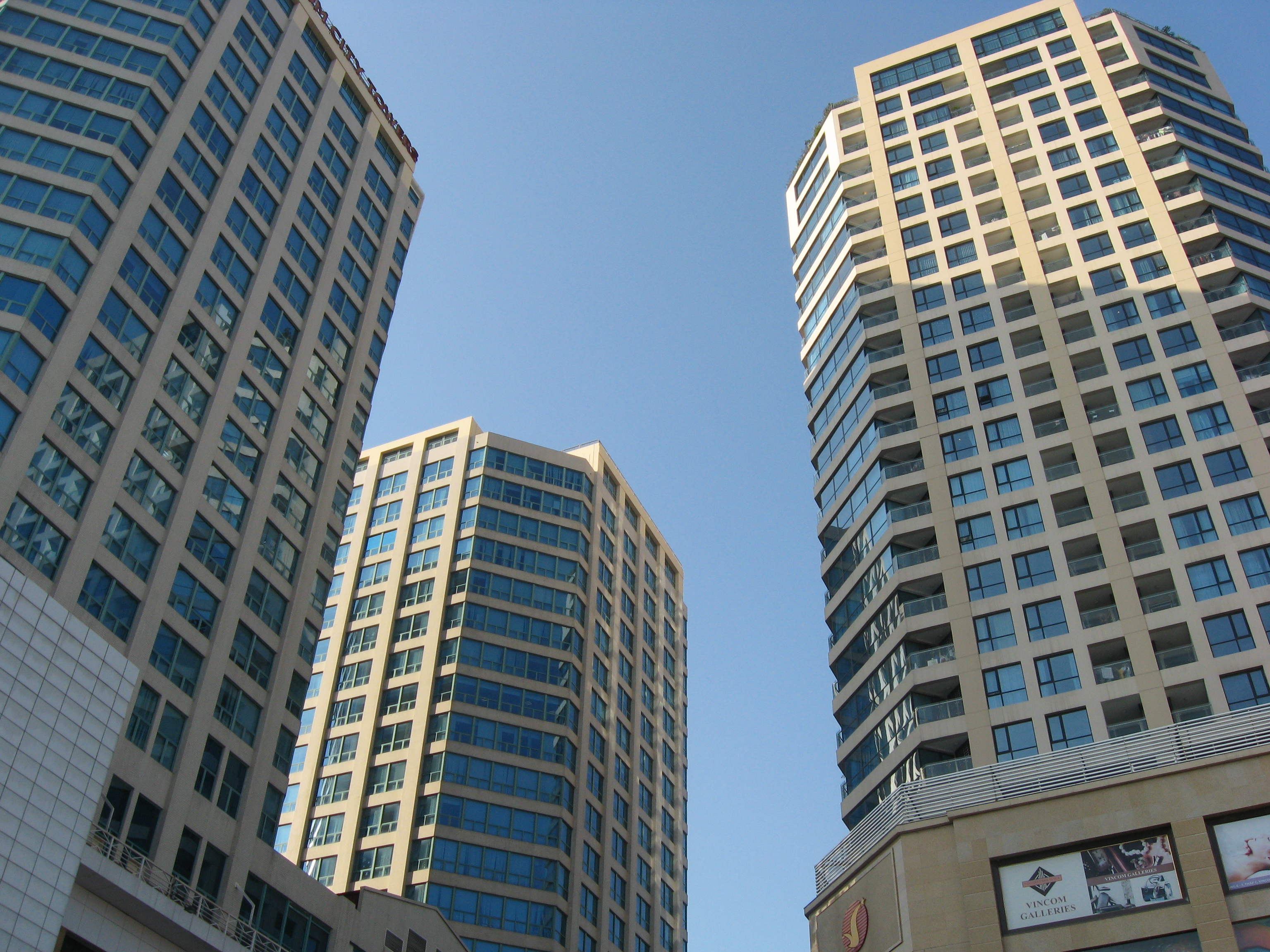 Vincom City Tower, Hanoi